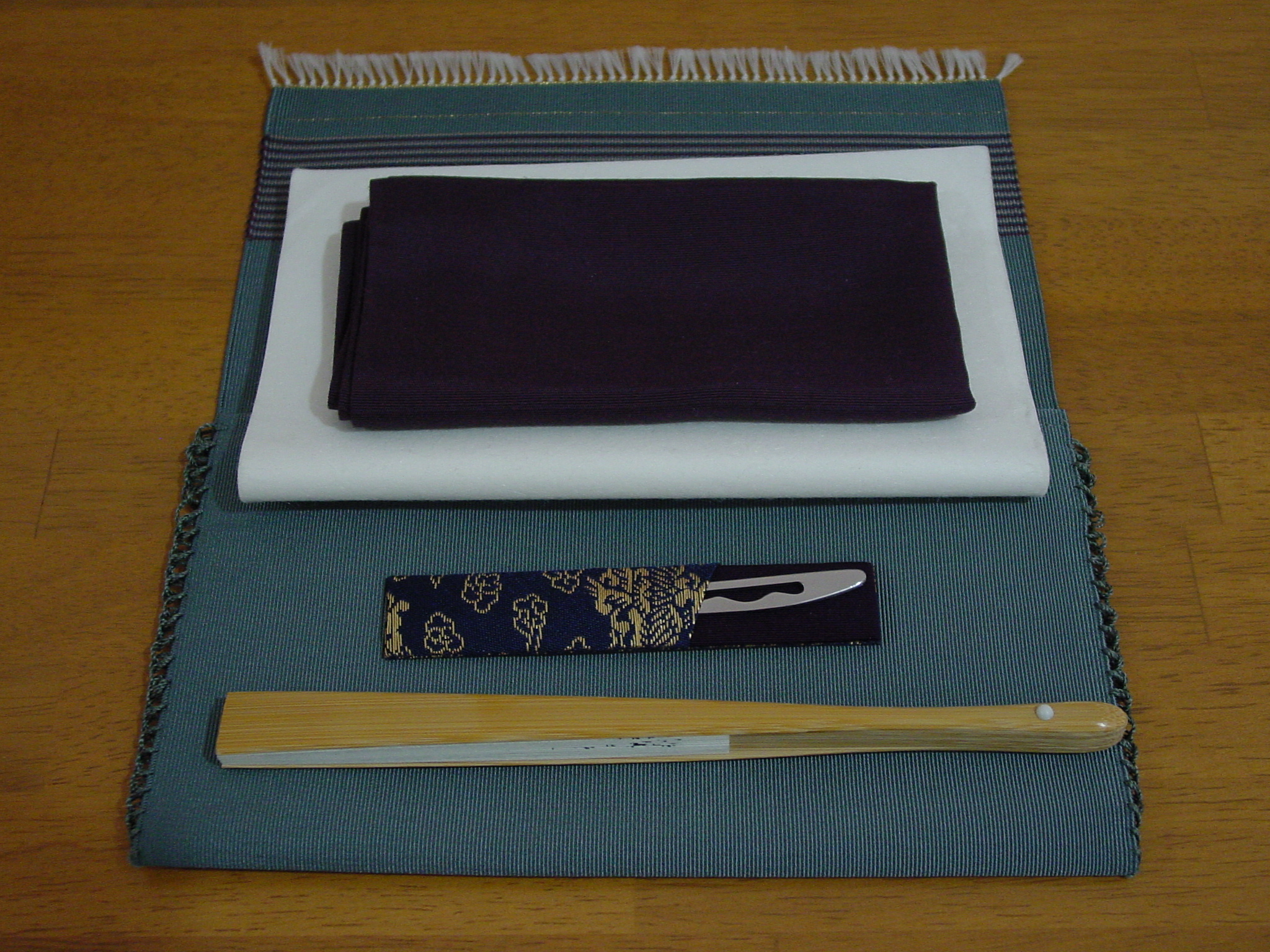 Inside a fukusabasami: kaishi sheets, fukusa cloth, a sweet-pick and a fan.